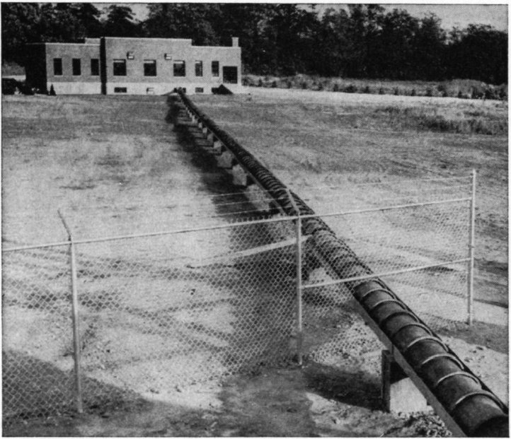 Early coaxial cable feedline for 50kW AM radio station WNBC, Port Washington, New York.